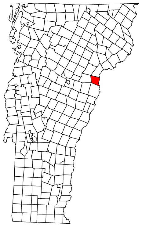 Description: Map of Vermont towns with Ryegate highlighted Source: Map created by Jared C. Benedict on 26 March 2004. Copyright: © Jared C. Benedict.